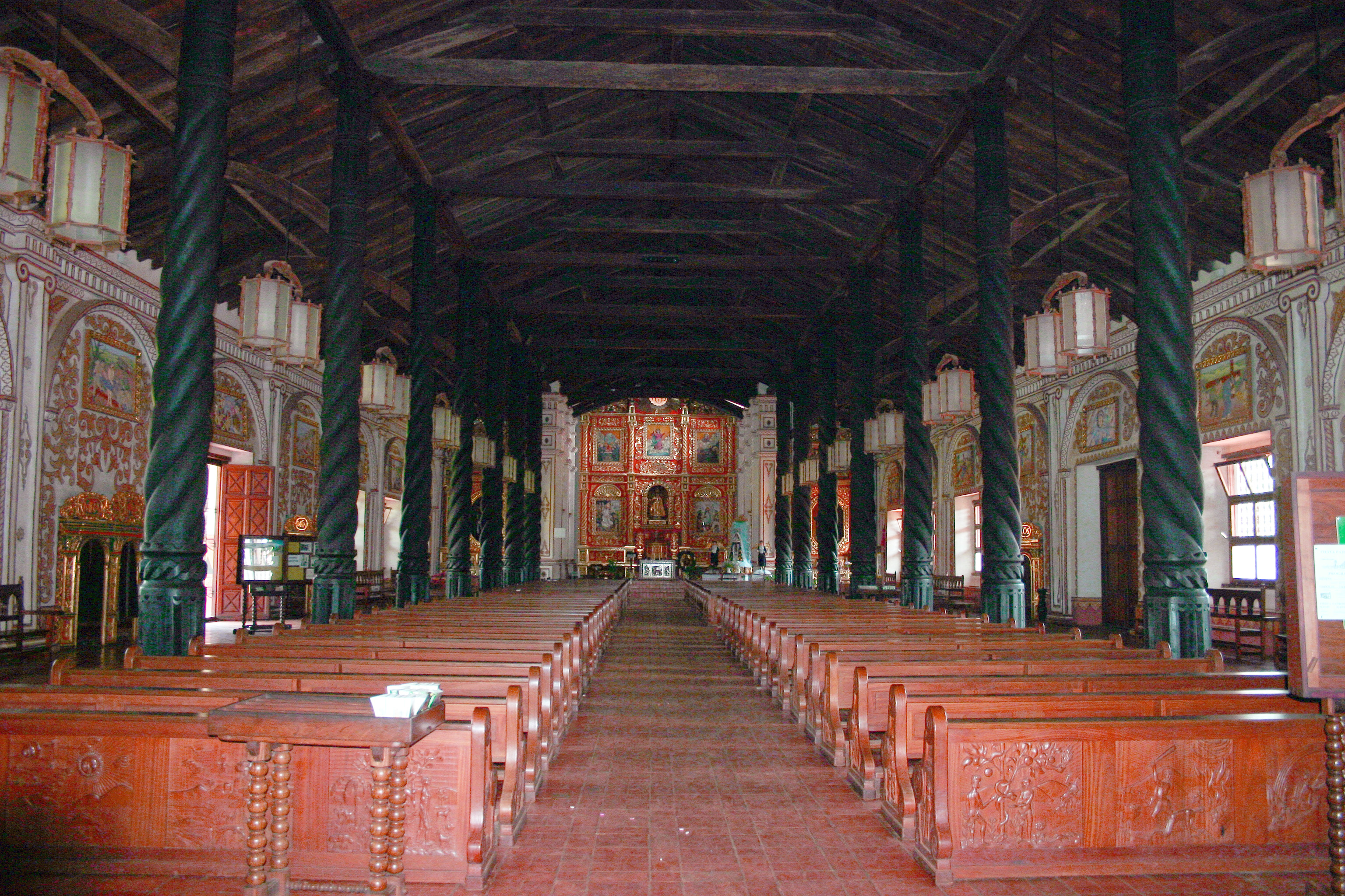 Interior view facing main altar, cathedral, Concepción, Bolivia